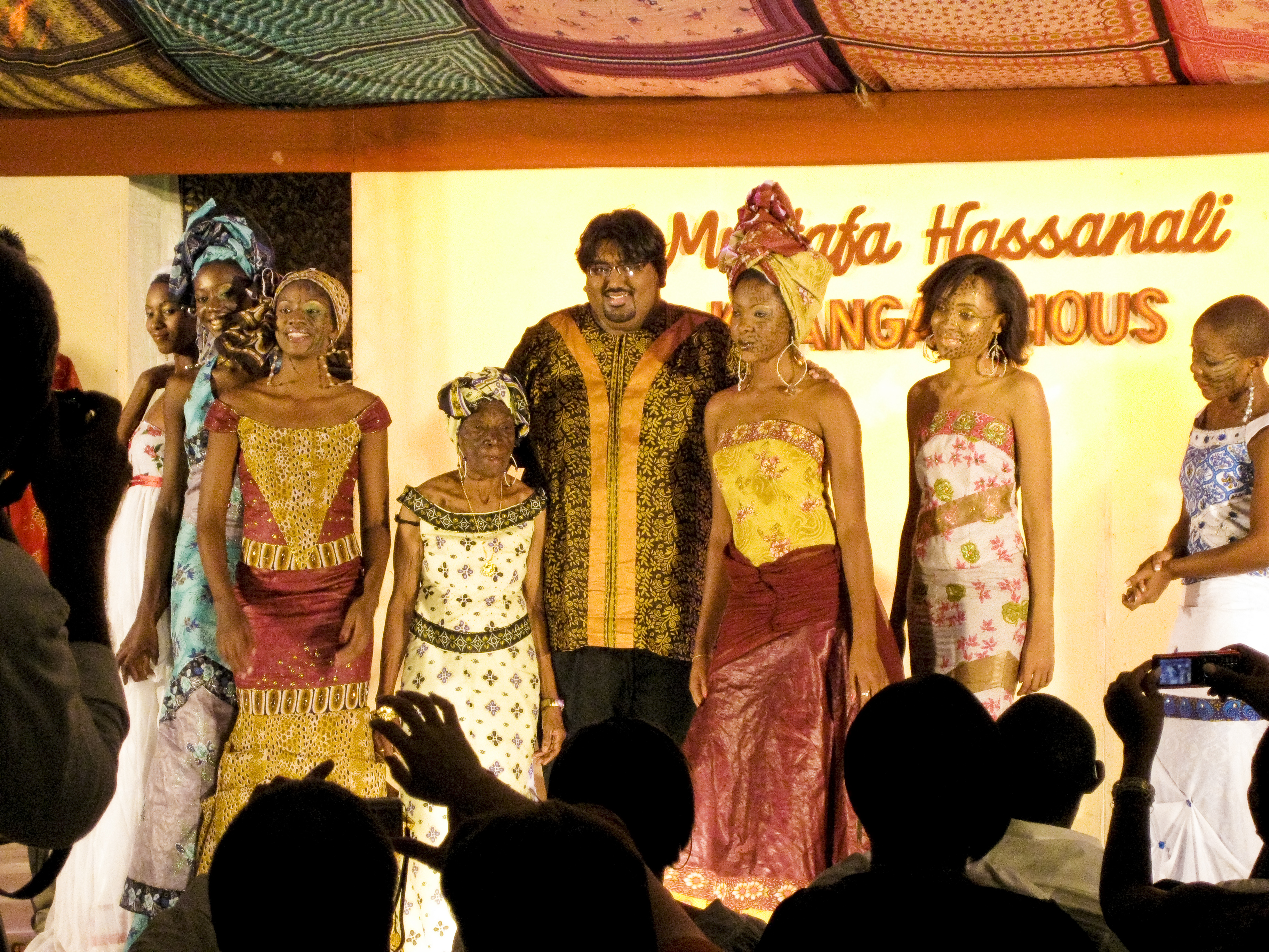 Khangalicious Fashion Show, Movenpick Hotel, Dar es Salaam, Tanzania